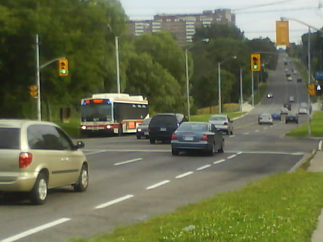 Southbound view of Markham Road near Cedarbrae Collegiate Institute in Toronto, Canada.